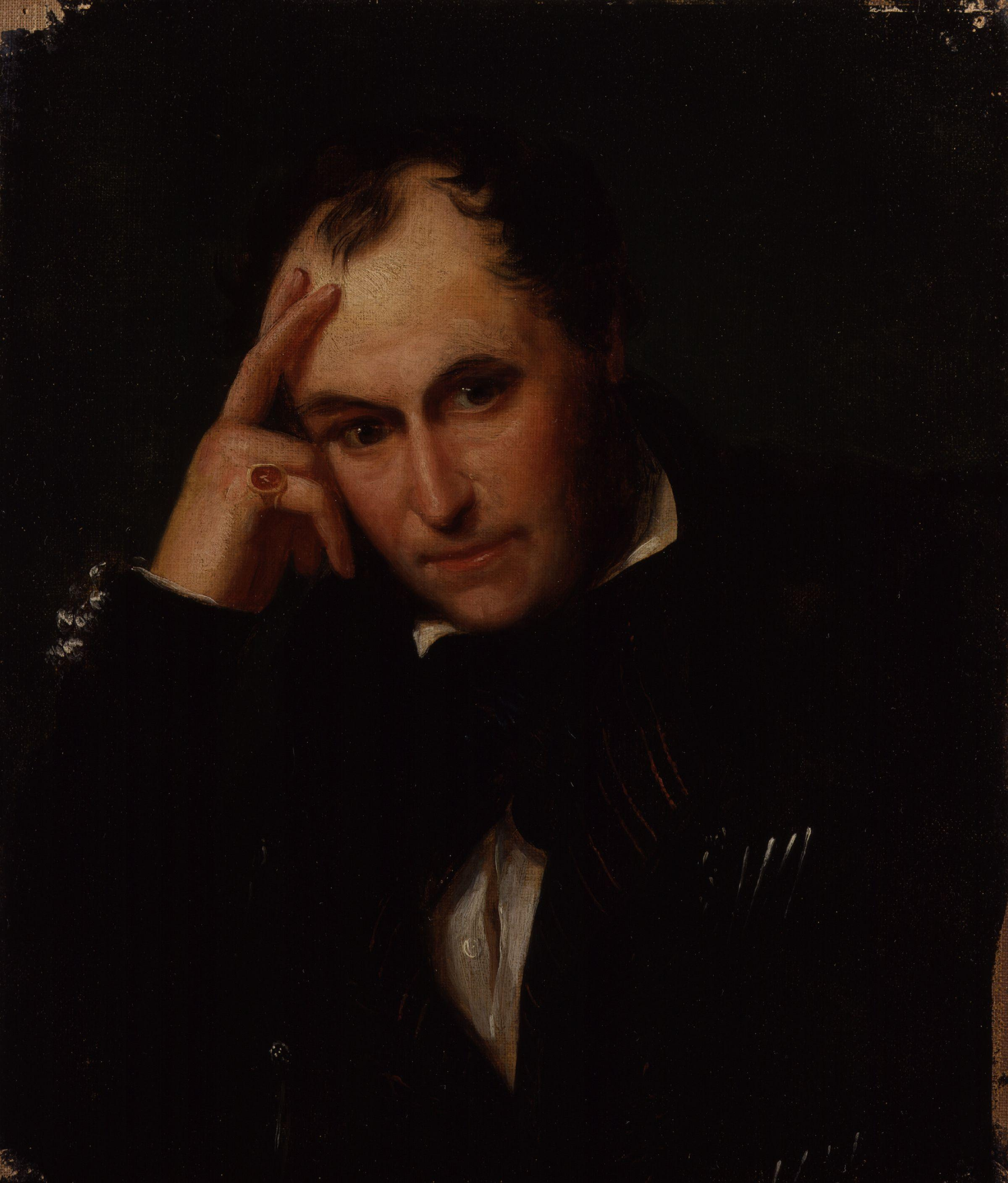 Richard Ford, by Antonio Chatelain (died 1859). All images in this batch have been confirmed as author died before 1939 according to the official death date listed by the NPG.